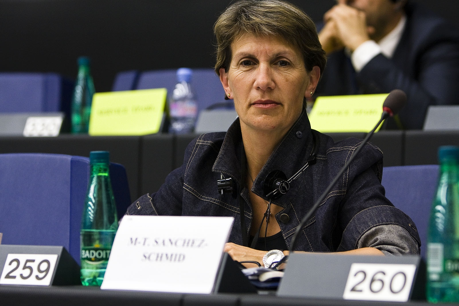 Marie Thérèse Sanchez Schmid